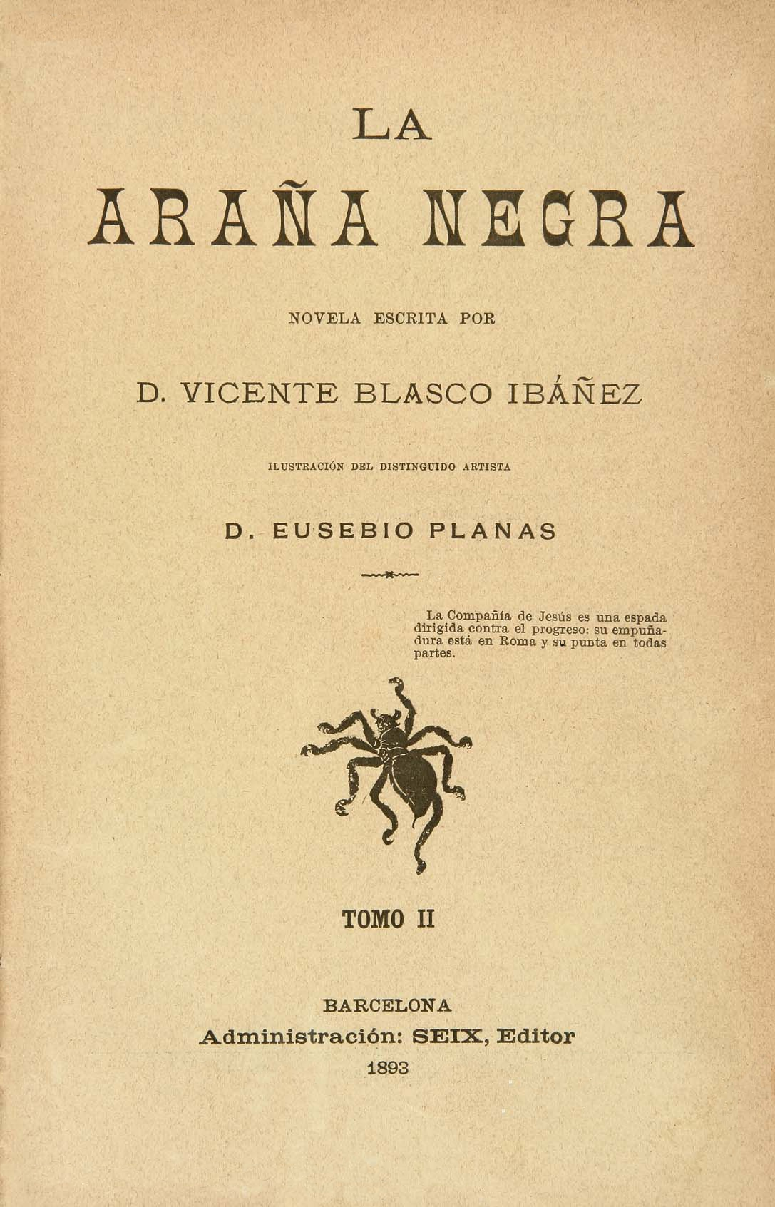 Title page of volume II of the book "La araña negra". Vicente Blasco Ibáñez, published in 1893.